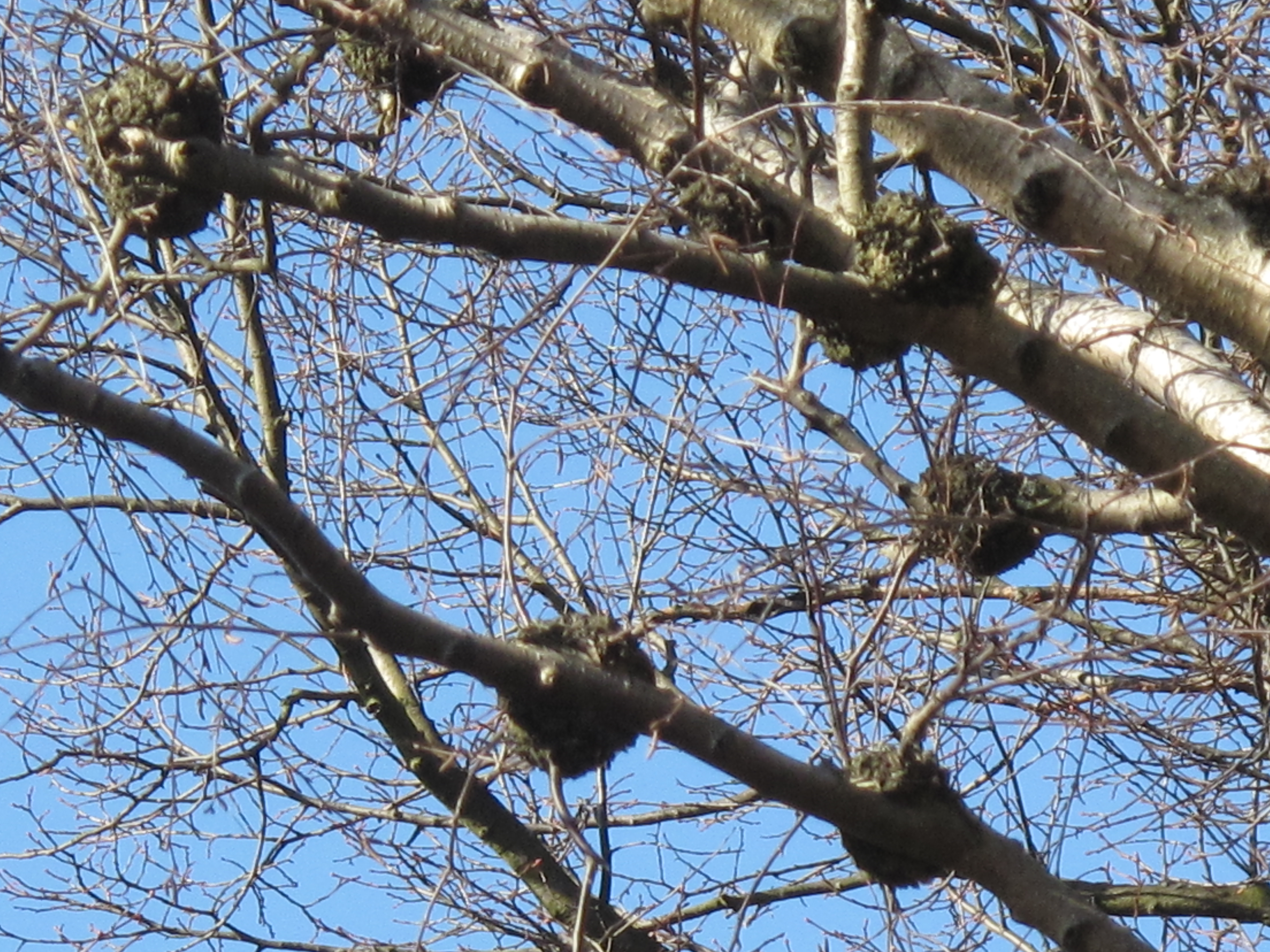 Birch with parasite.